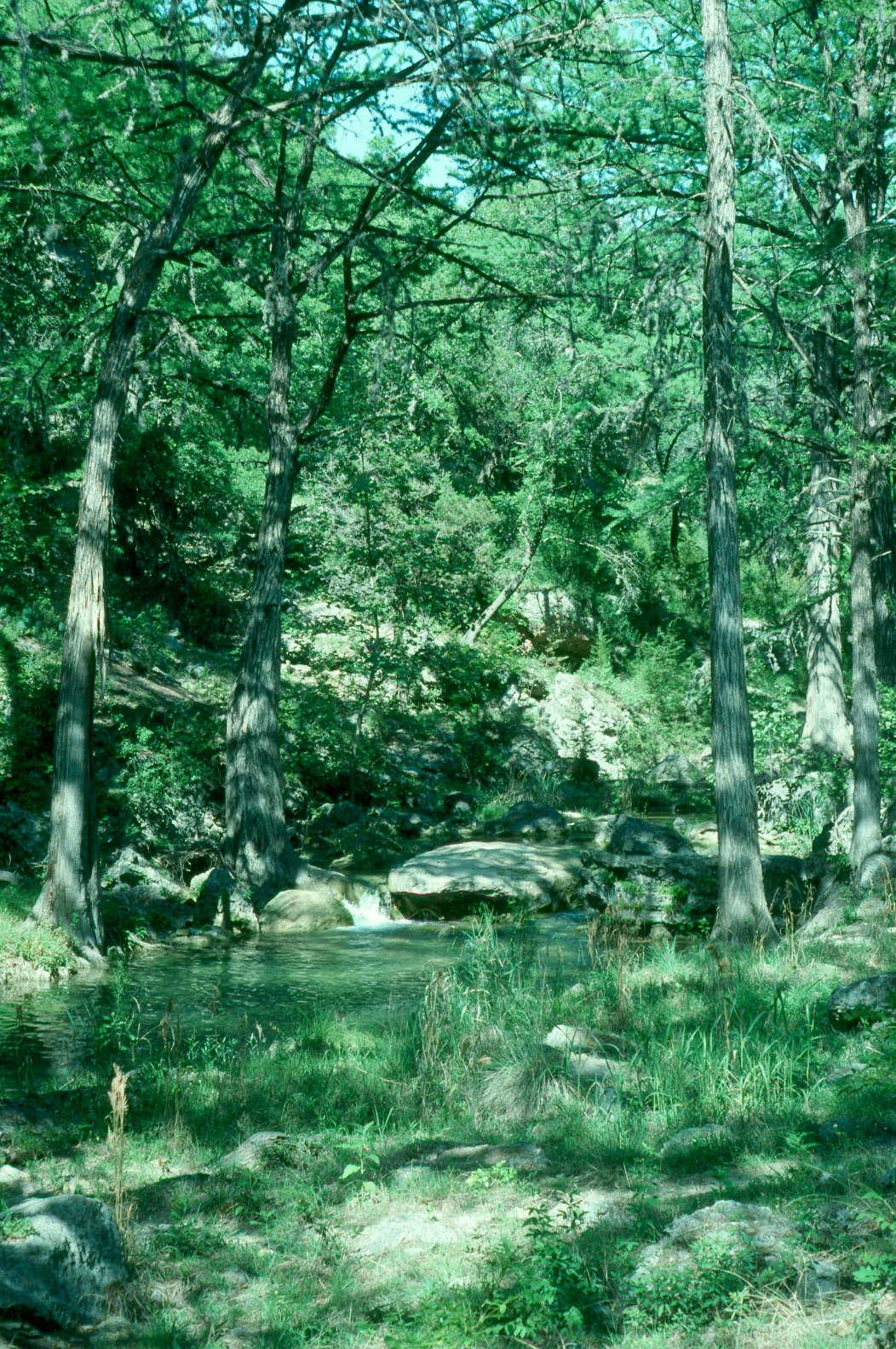 Small stream draining Hamilton Pool into the Pedernales River. Photo taken in July, 1995.Not home 19:06, 3 May 2007 (UTC)